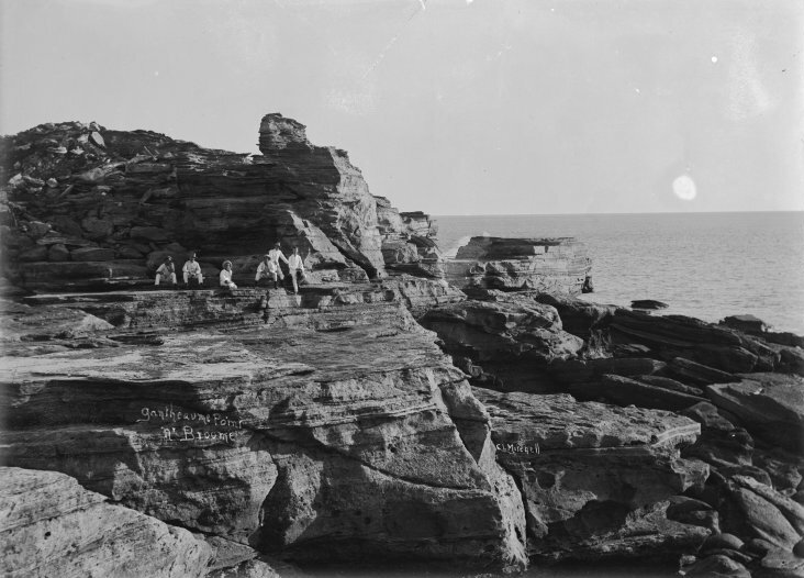 Gantheaume Point, Broome, Western Australia.